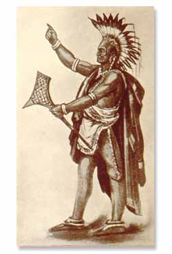 Chief Pontiac